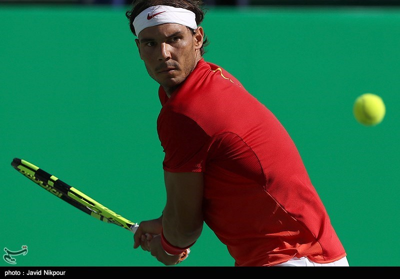 Tennis at the 2016 Summer Olympics